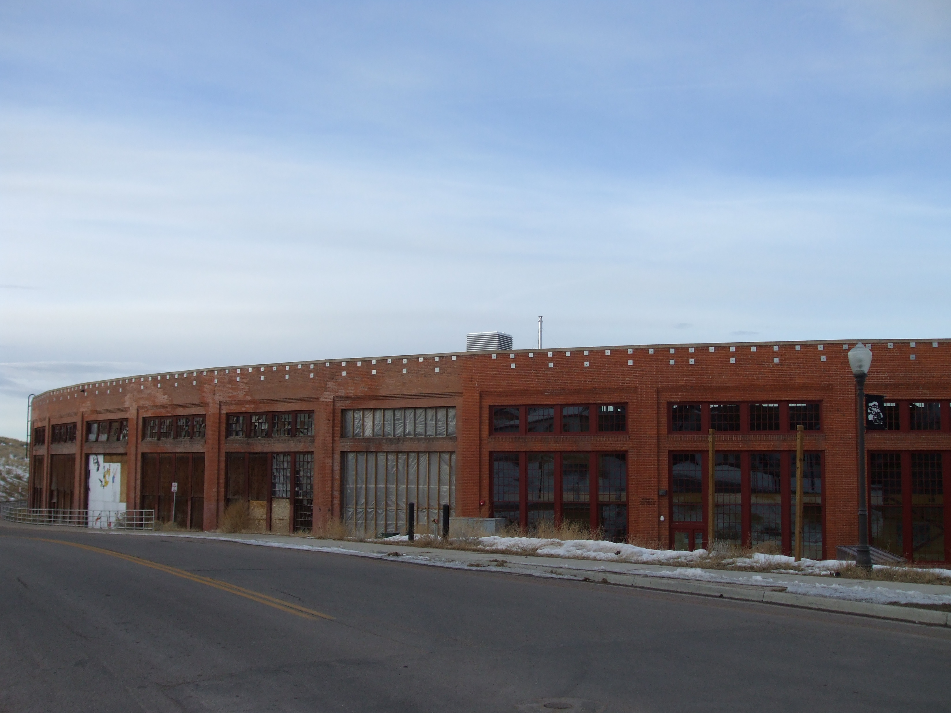 The Evanston Roundhouse, the only roundhouse of the Union Pacific Railroad that still stands complete, is part of the Union Pacific Railroad Complex, listed as a National Historic District on the National Register of Historic Places. It is in Evanston, Wyoming, United States.